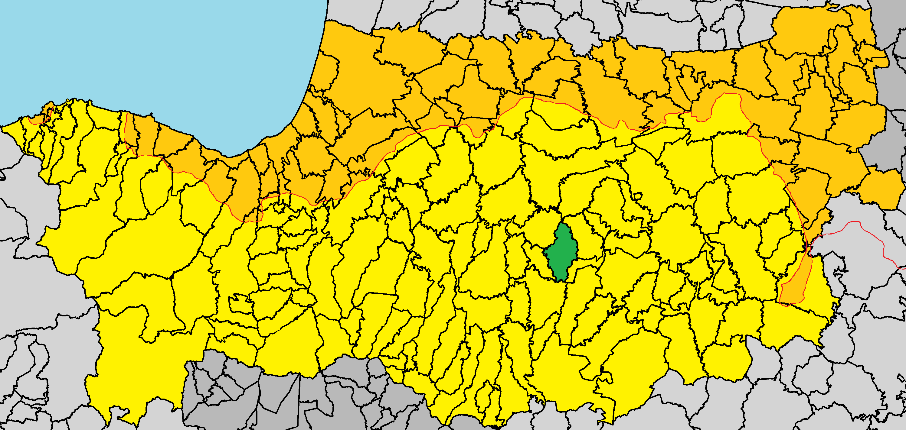 Arediou in Nicosia District.